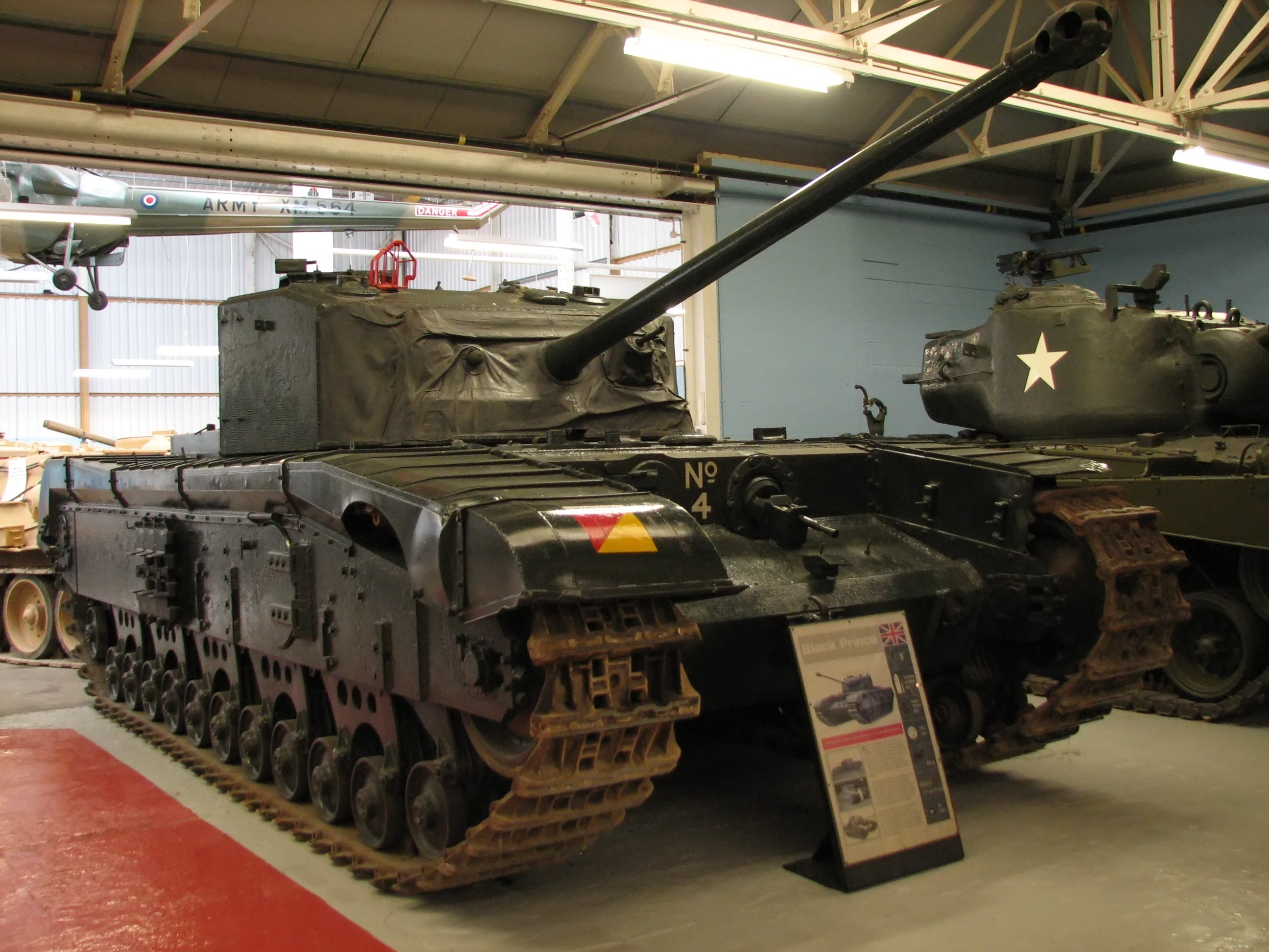 The only surviving British Black Prince (A43) infantry tank, prototype number four, at Bovington Tank Museum